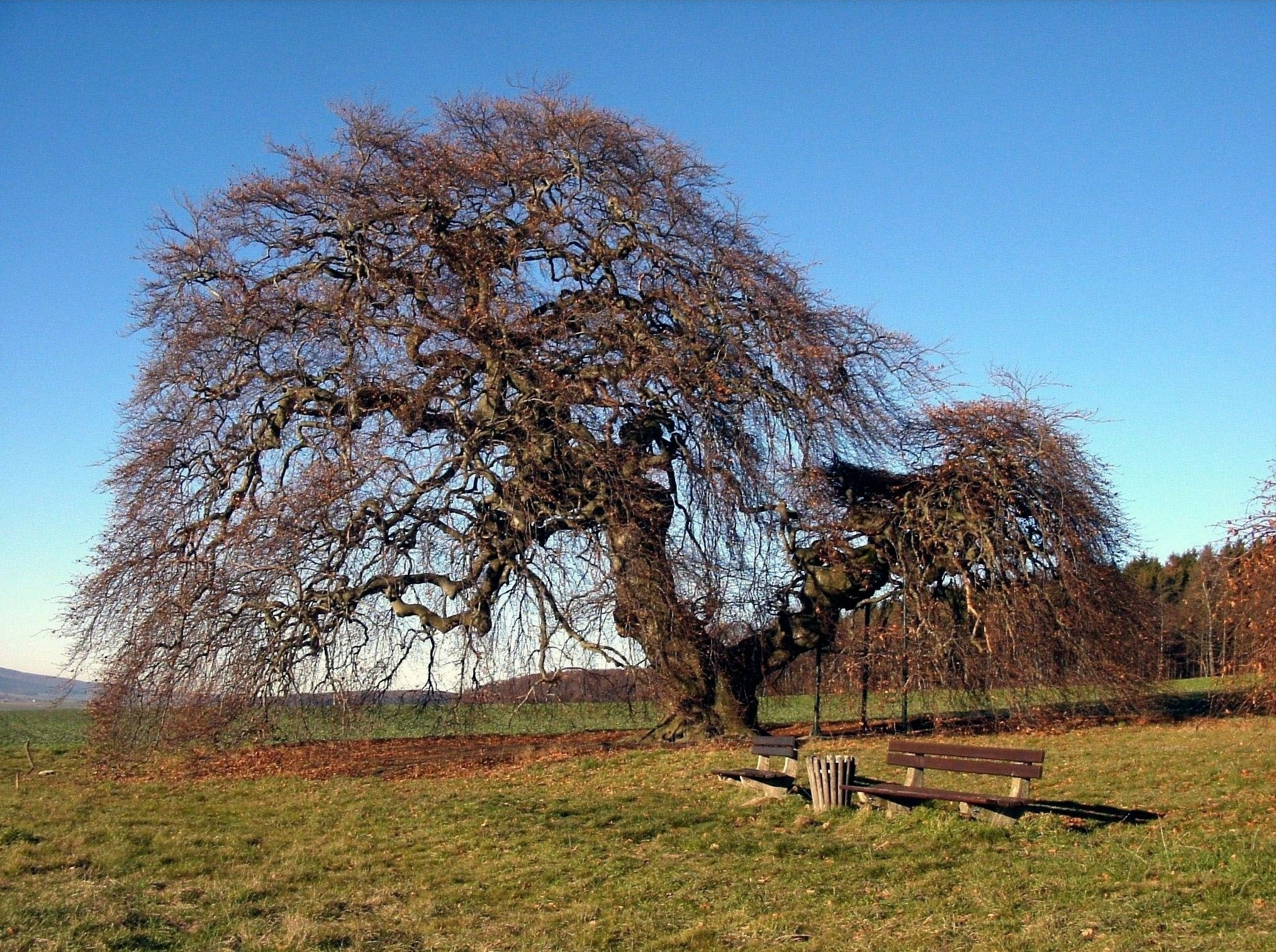 Dwarf Beech, 200–210 years old, near Gremsheim/Bad Gandersheim in Lower Saxony (Germany). A very famous and well-known Dwarf-Beech. Girth of trunk: 6 m, Diameter of treetop: 25 m, Hight: 14 m.